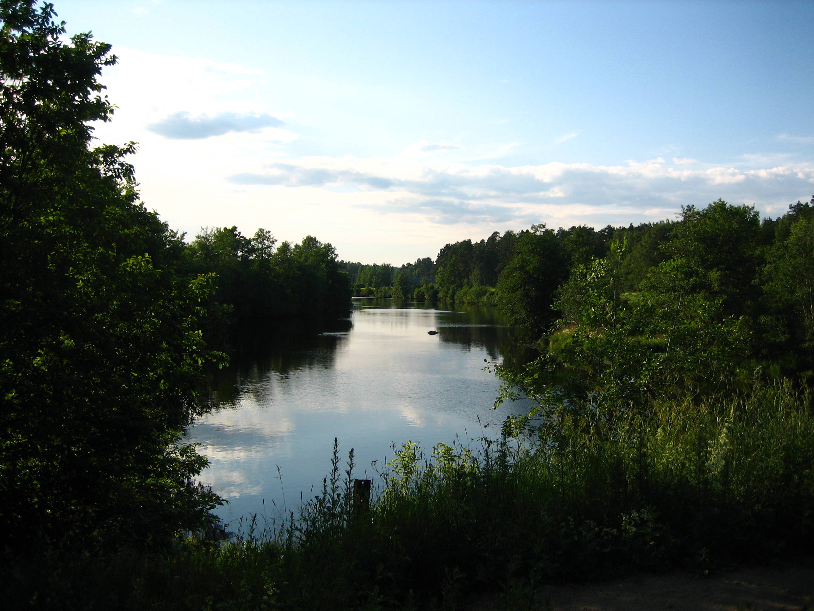 Noormarkunjoki towards north from the railway bridge